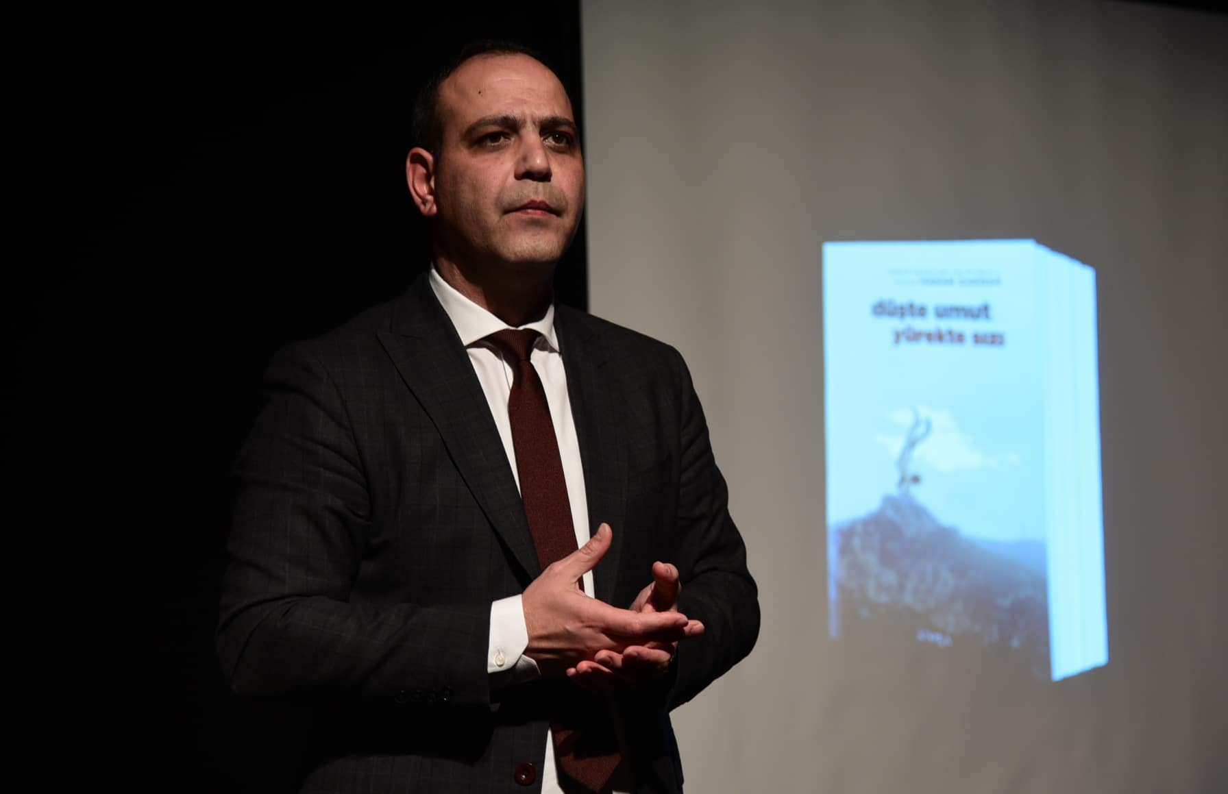 Mehmet Harmancı, mayor of North Nicosia at the launch night of a book on actor and writer Yaşar Ersoy